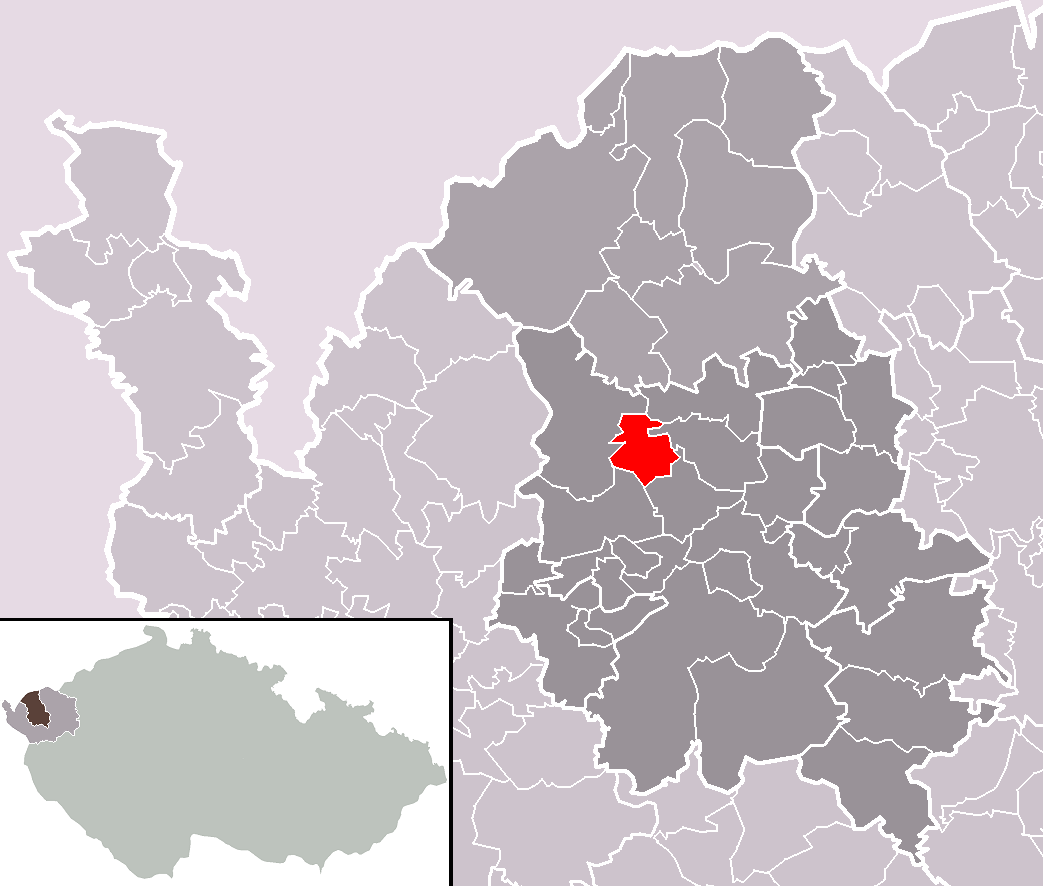 Location of Josefov municipality within Sokolov District and administrative area of Sokolov as a Municipality with Extended Competence.